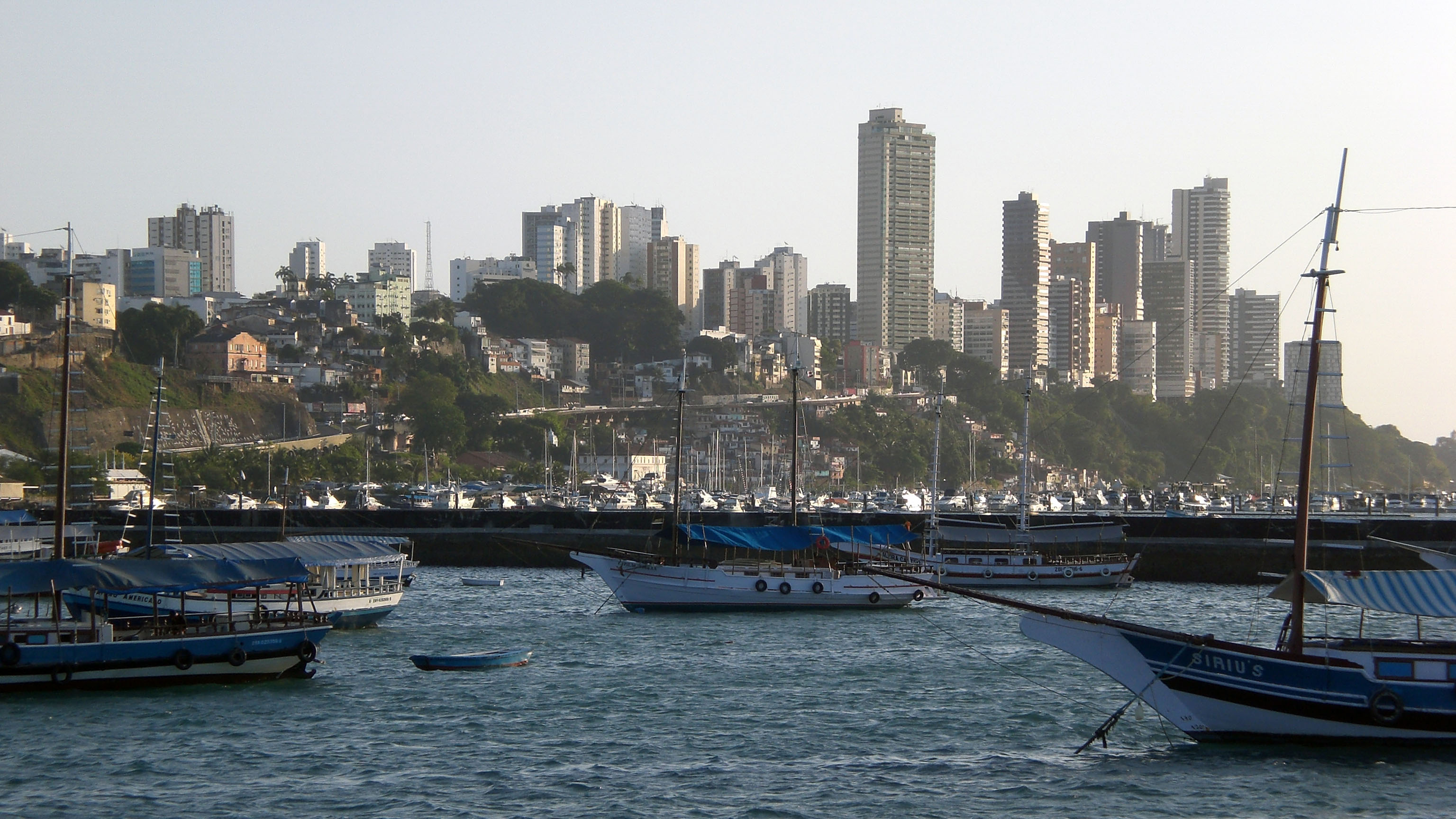 Sight of the Vitória, Salvador, Bahia, Brazil.